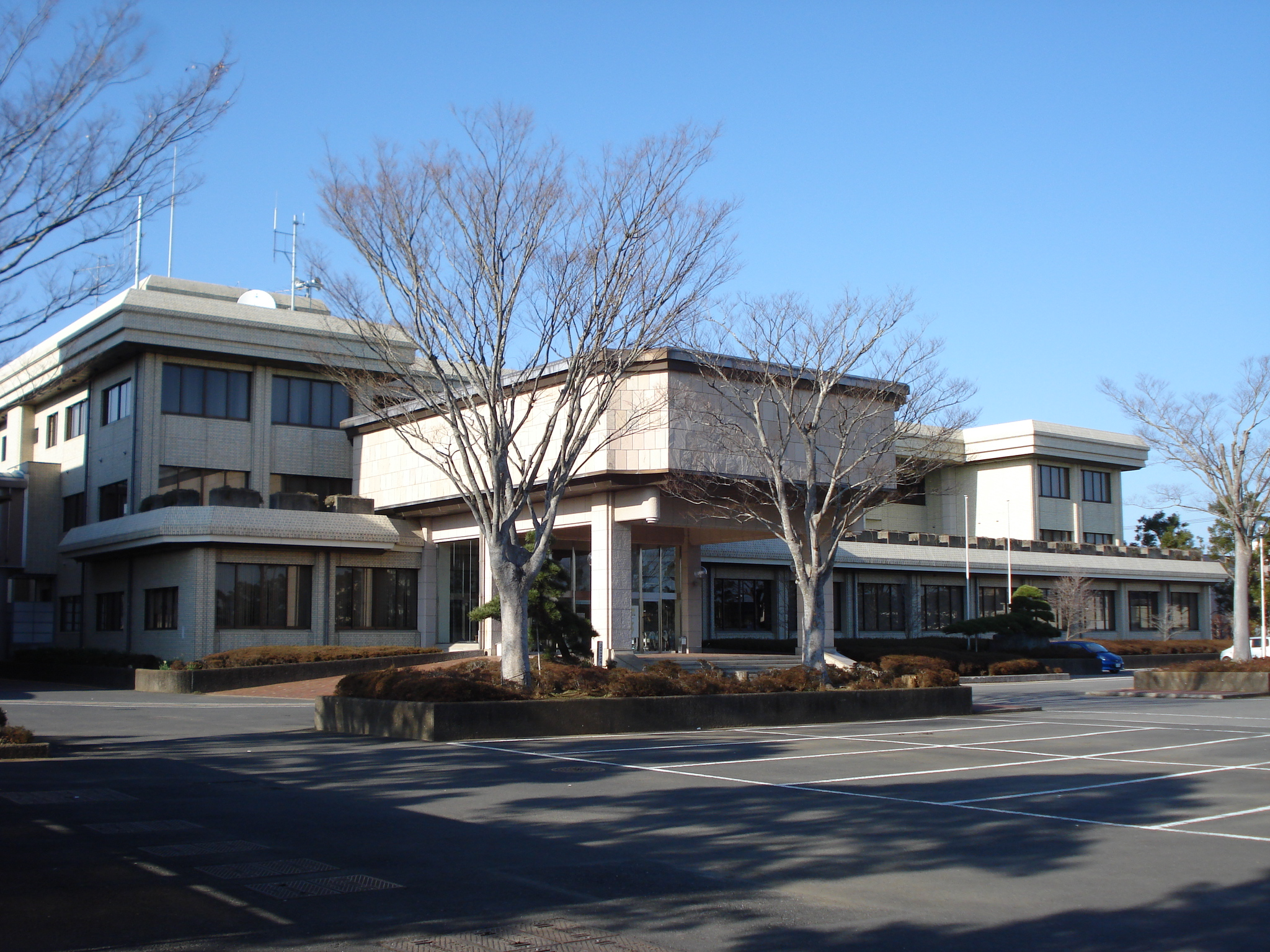 Sammu City Hall Naruto Building (ex Naruto Town Hall)